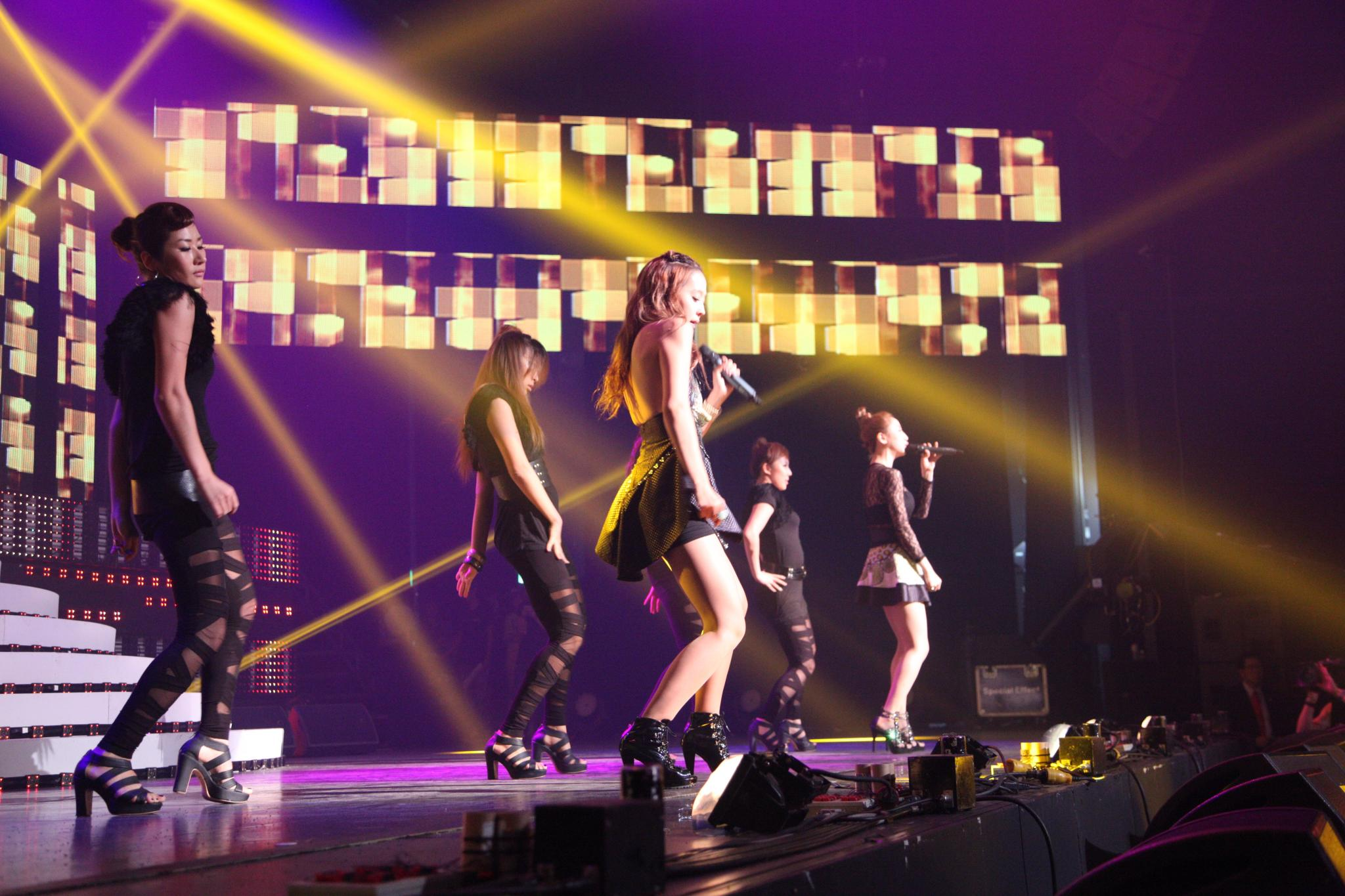 천상지희 @ Cyworld Dream Music Festival 싸이월드 드림 뮤직 페스티벌_3